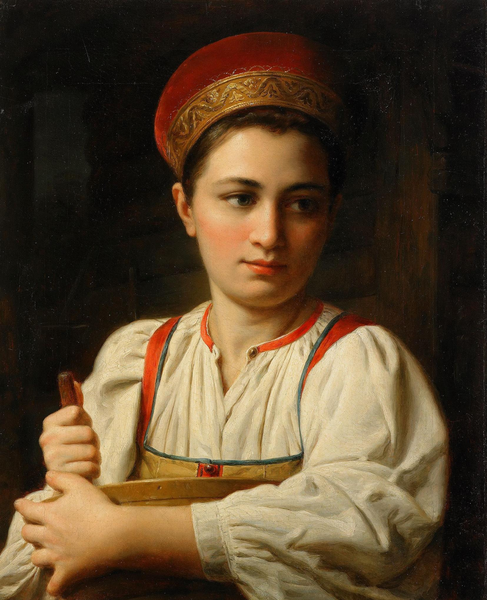 The Russian Auction, Stockholm.